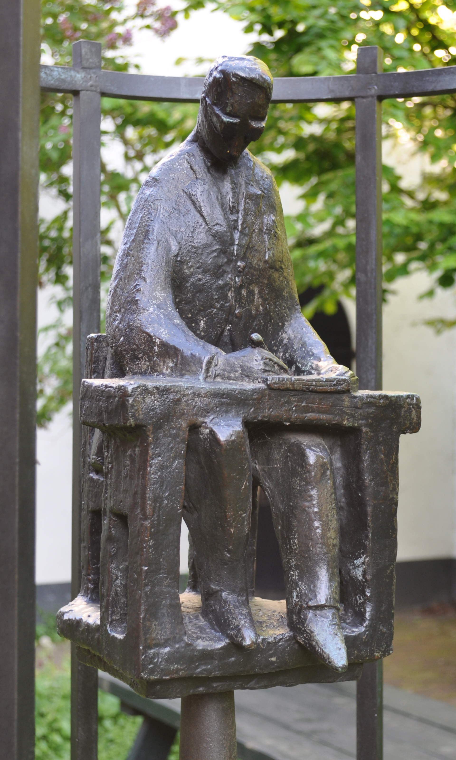 Detail of the sculpture "Ambtenaar" (official) by Louis Dusée at the Zwaansteeg in Utrecht. Made in 1961, relocated in 1997.